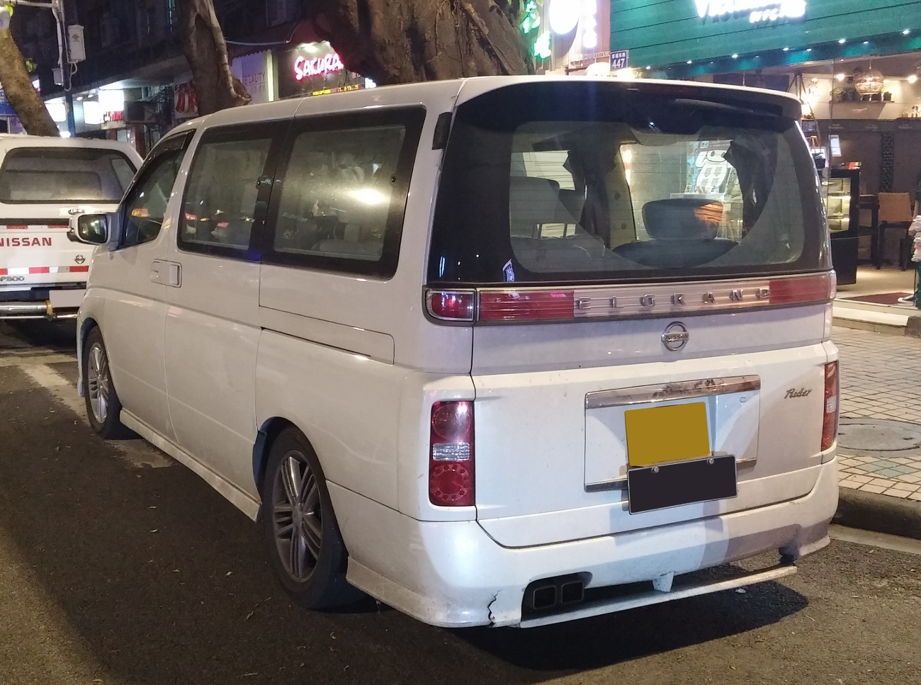 Nissan Elgrand E51 Rider facelift photographed in Guangzhou, Guangdong province, China.